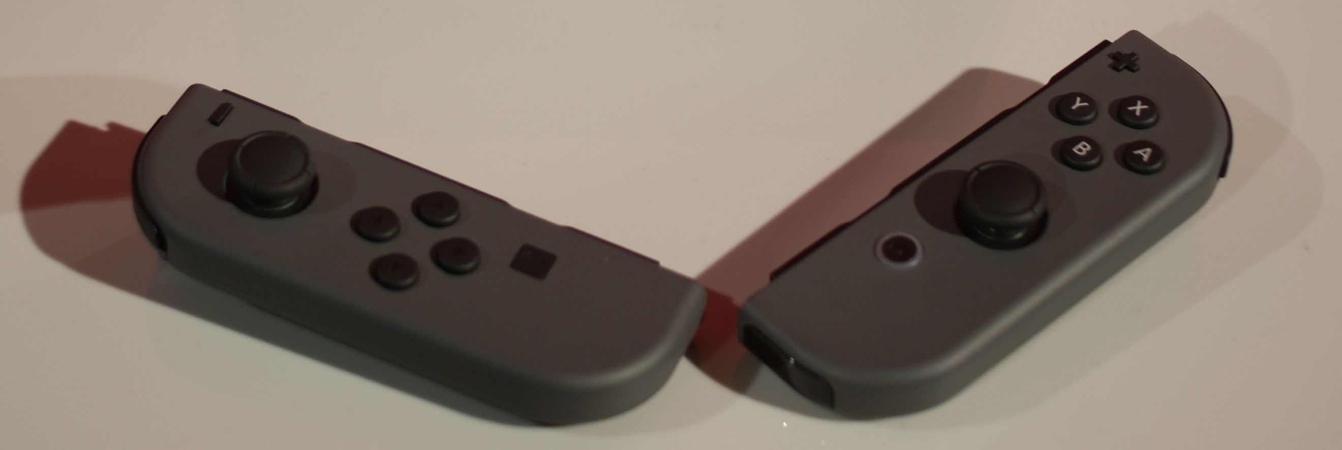 Closeup of the Joy-Con controllers for the Switch unit.